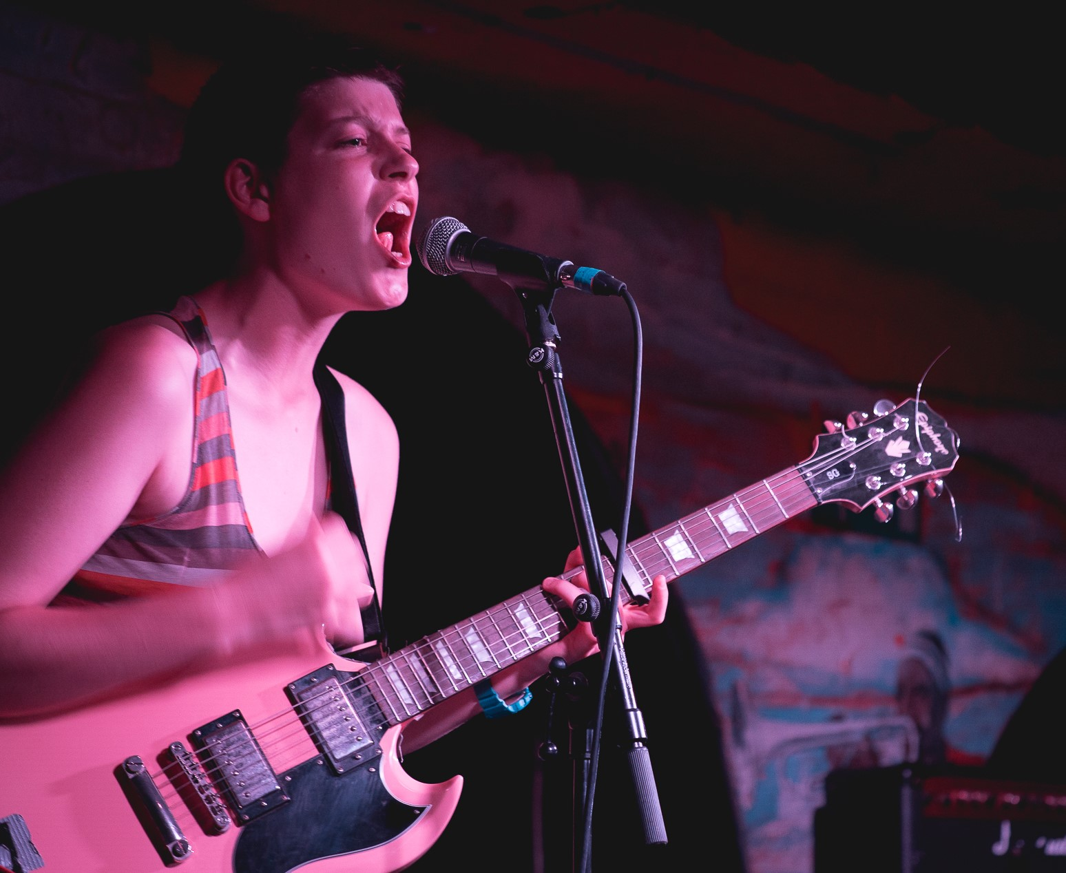 Dana Margolin of UK band Porridge Radio performing at the Shacklewell Arms in Dalston, London on 6 August 2016